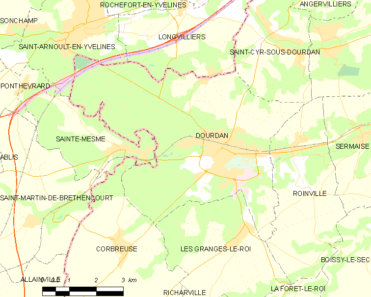 Map of French municipality Dourdan